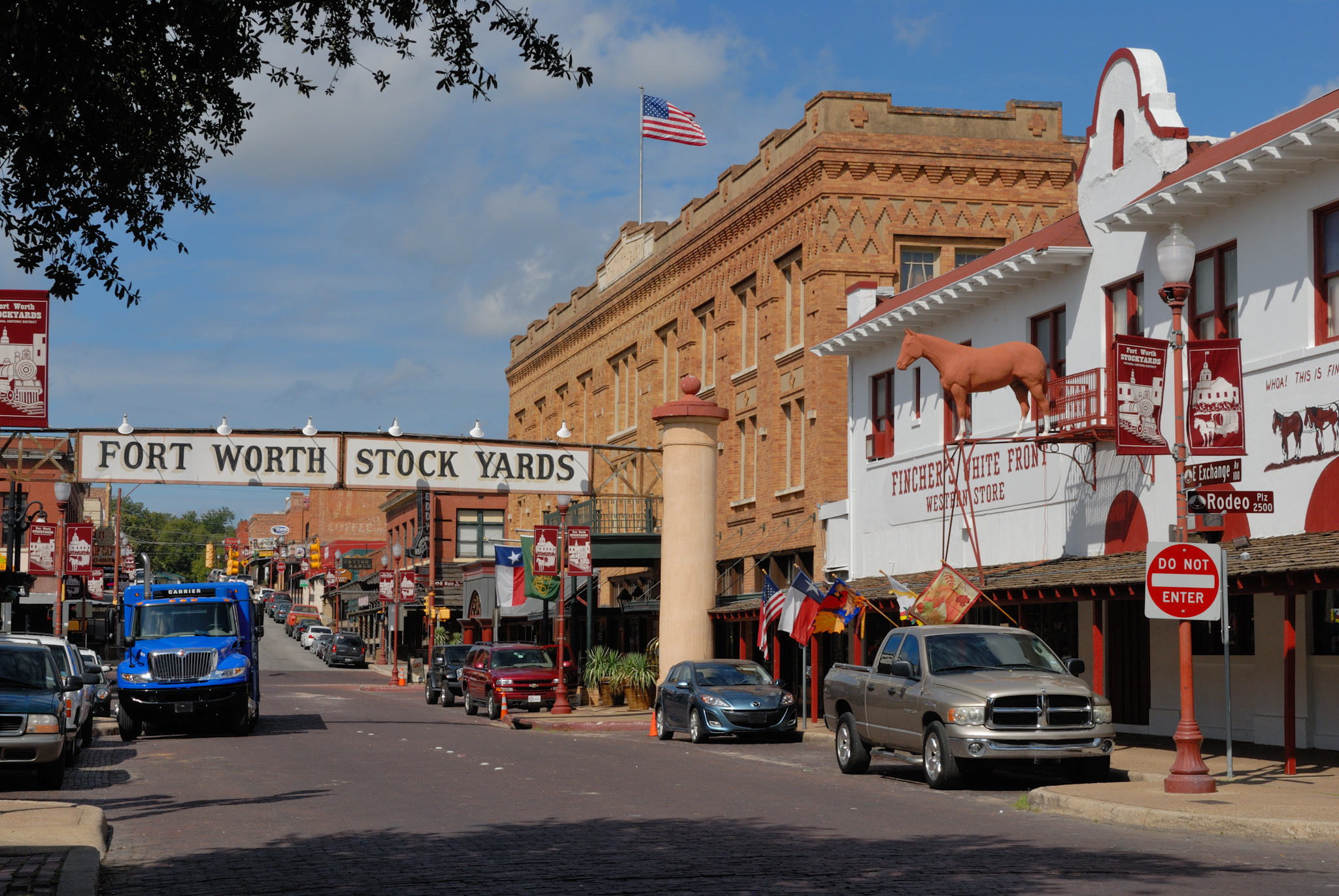 Fort Worth Stockyards Historic DistrictExchange Avenue, The Stockyards Hotel, and Fincher's White Front Western Store in the Fort Worth Stockyards Historic Distric. NRHP Ref 76002067.